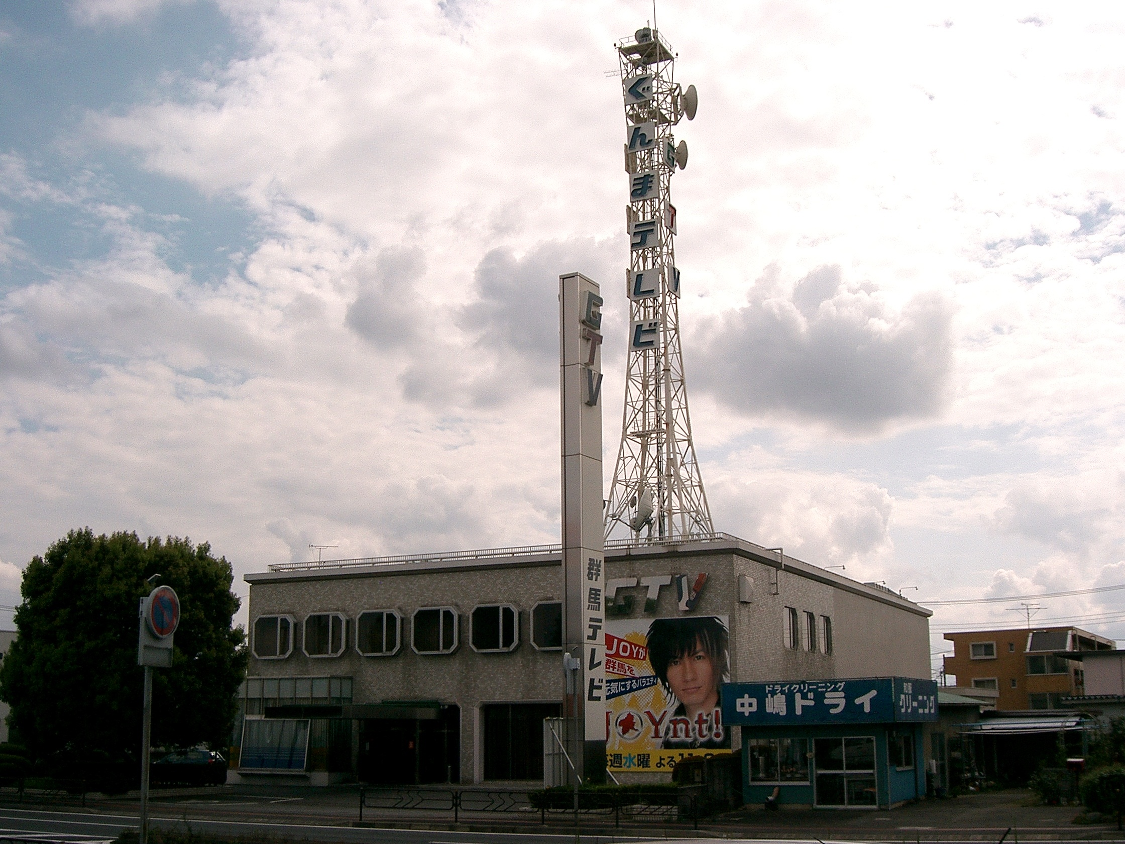 Building of Gunma Television